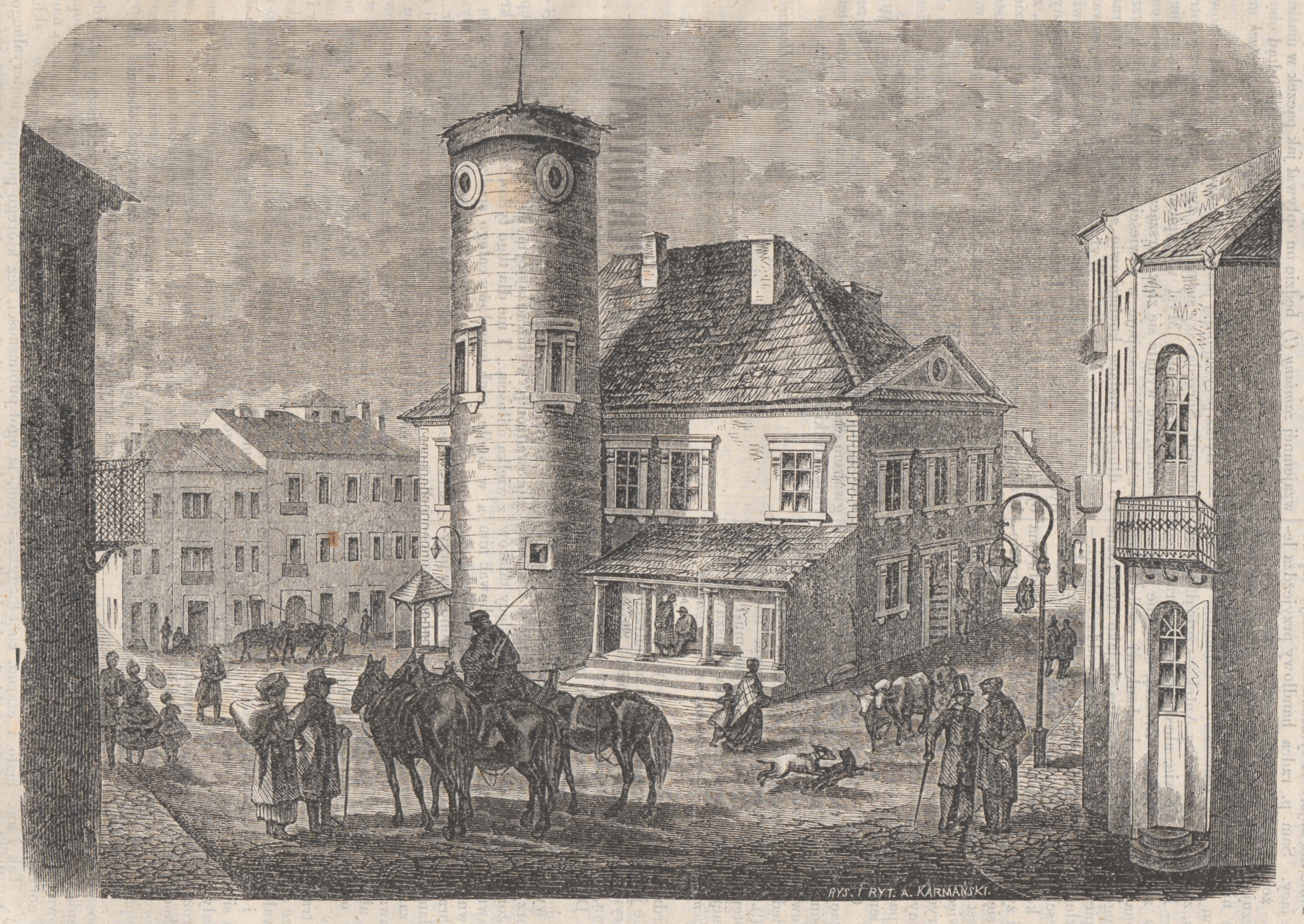 Town hall in Piotrków Trybunalski in Poland, image published in 1871.